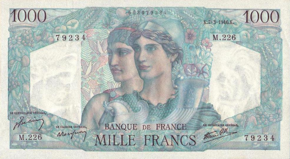 France 1000 francs Minerve et Hercule 01